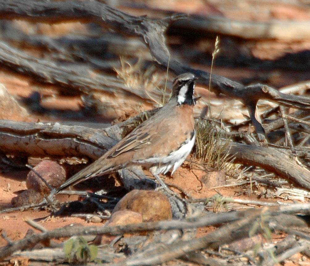 Chestnut-breasted Quail-thrush (Cinclosoma castaneothorax) Bowra, SW Queensland, Australia